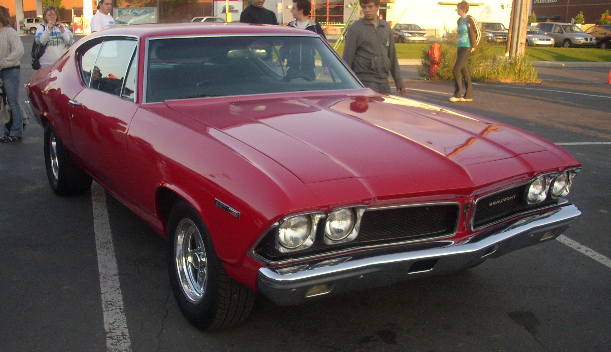 1968 Beaumont photographed in Montreal, Quebec, Canada at Gibeau Orange Julep.